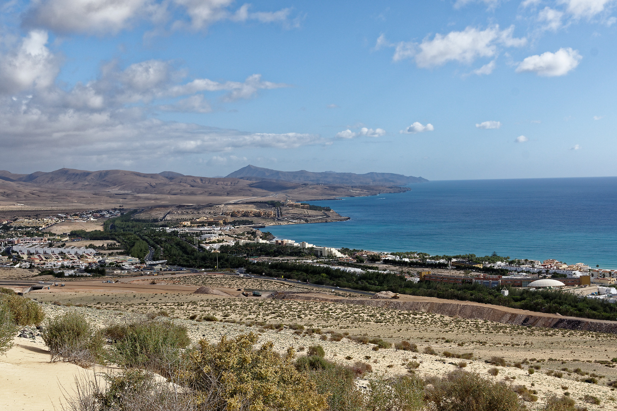 Costa Calma, Fuerteventura. Panorama view to north.